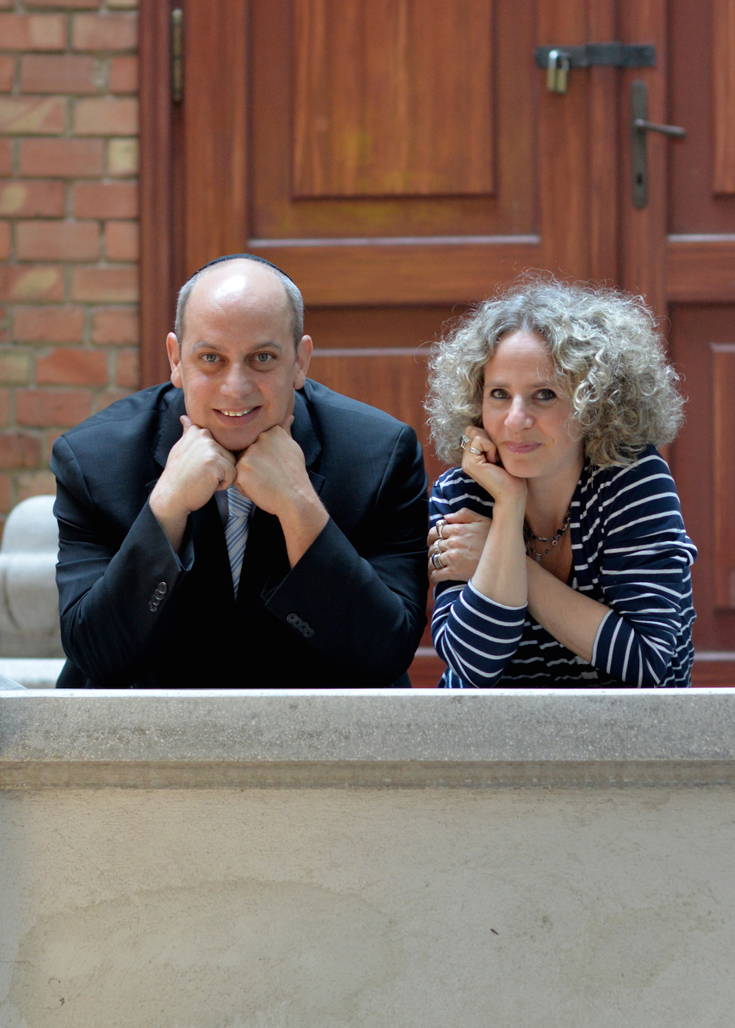 Tamas and Linda Vero